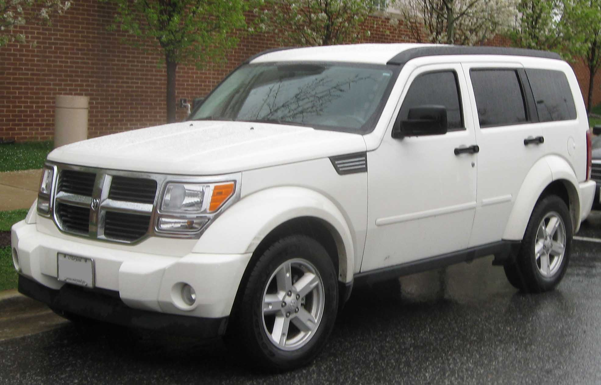 2007-2009 Dodge Nitro photographed in College Park, Maryland, USA.